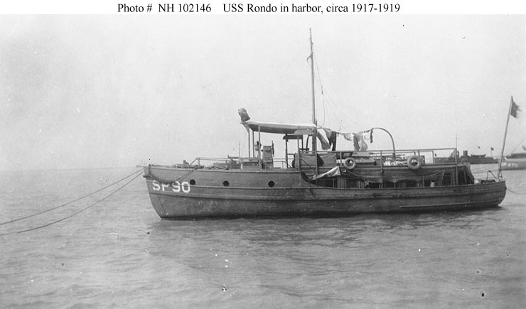 United States Navy patrol boat USS Rondo (SP-90), later USS SP-90, in port during World War I.